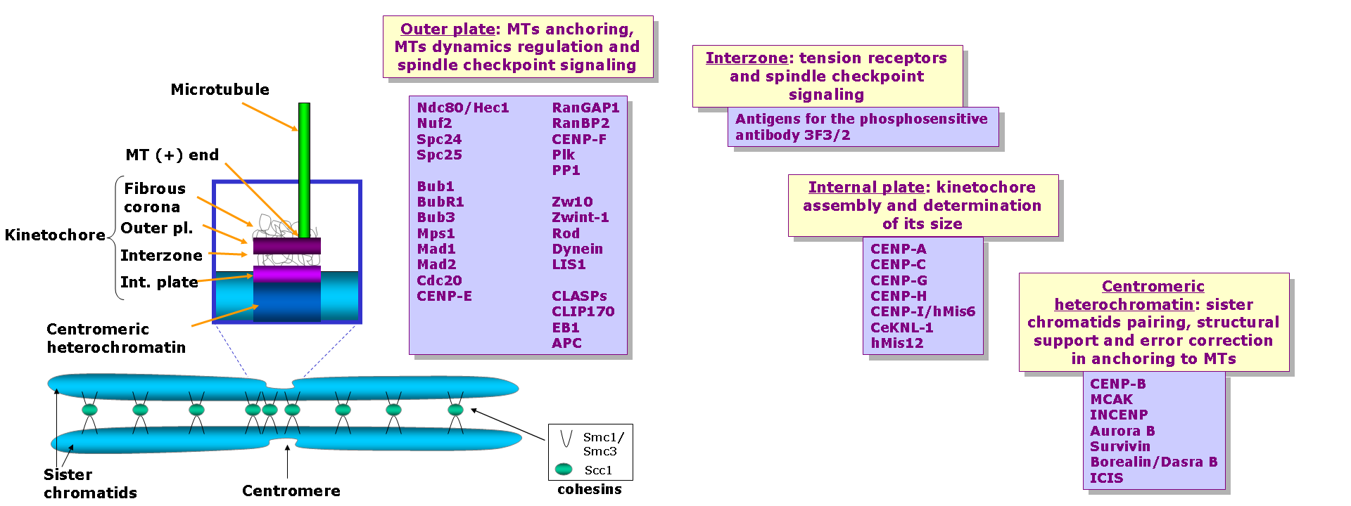 Vertebrate kinetochore structure and components. Based on Maiato et al. (2004) J. Cell Sci. 117(23):5461-5477